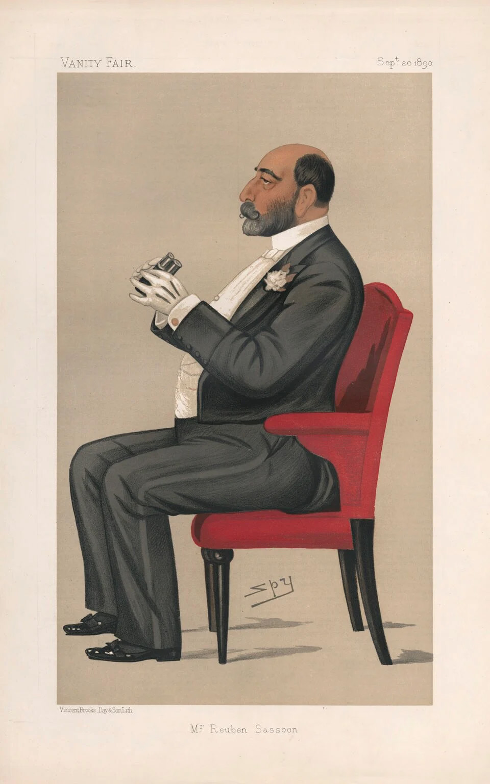 Men of the Day No.0483: Caricature of Mr. Reuben David Sassoon (1835-1905), Son of David Sassoon of Bombay. Caption reads: "Mr Reuben Sassoon"